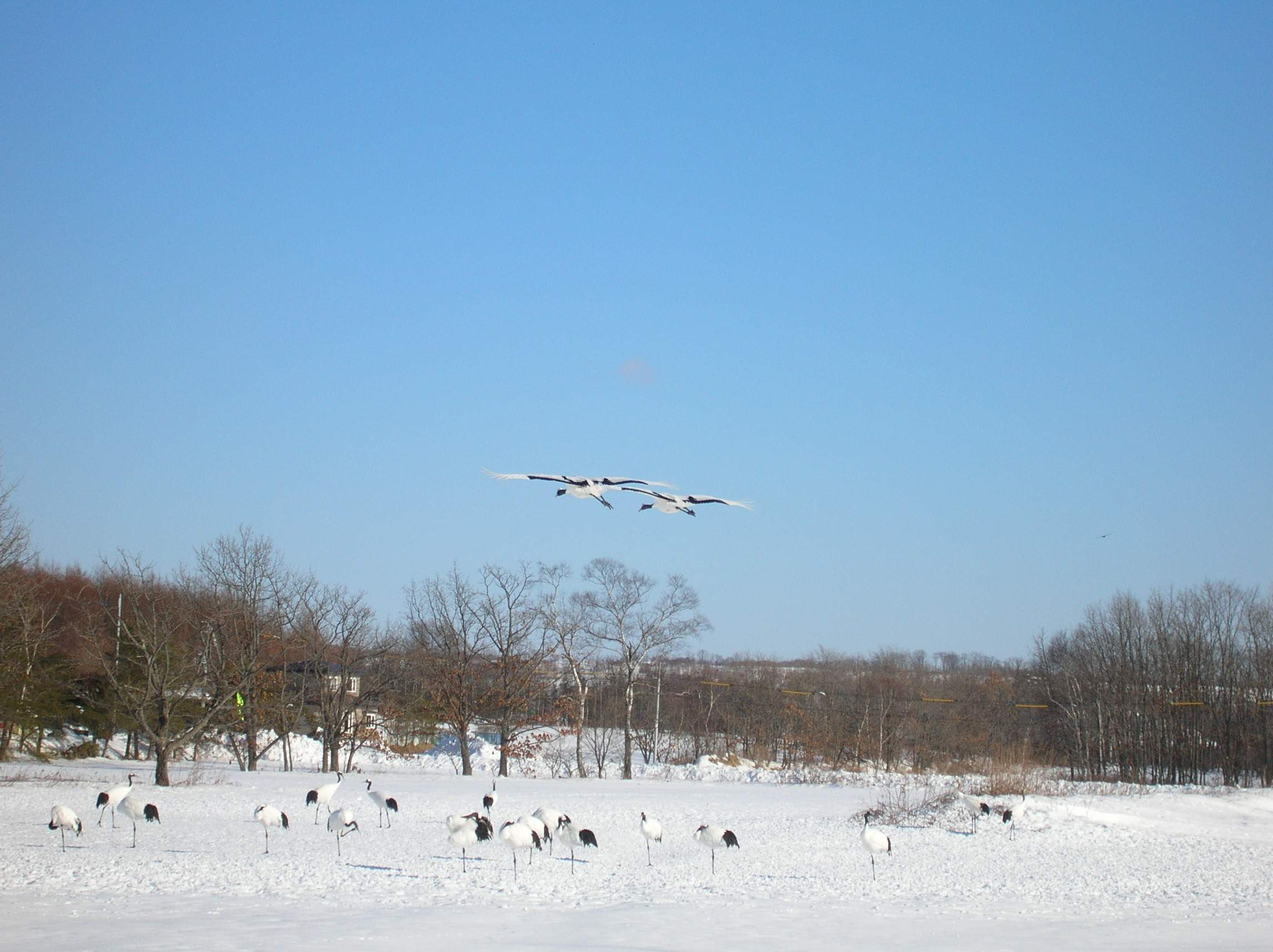 鶴居村の丹頂鶴（Tanchyo in Tsurui）